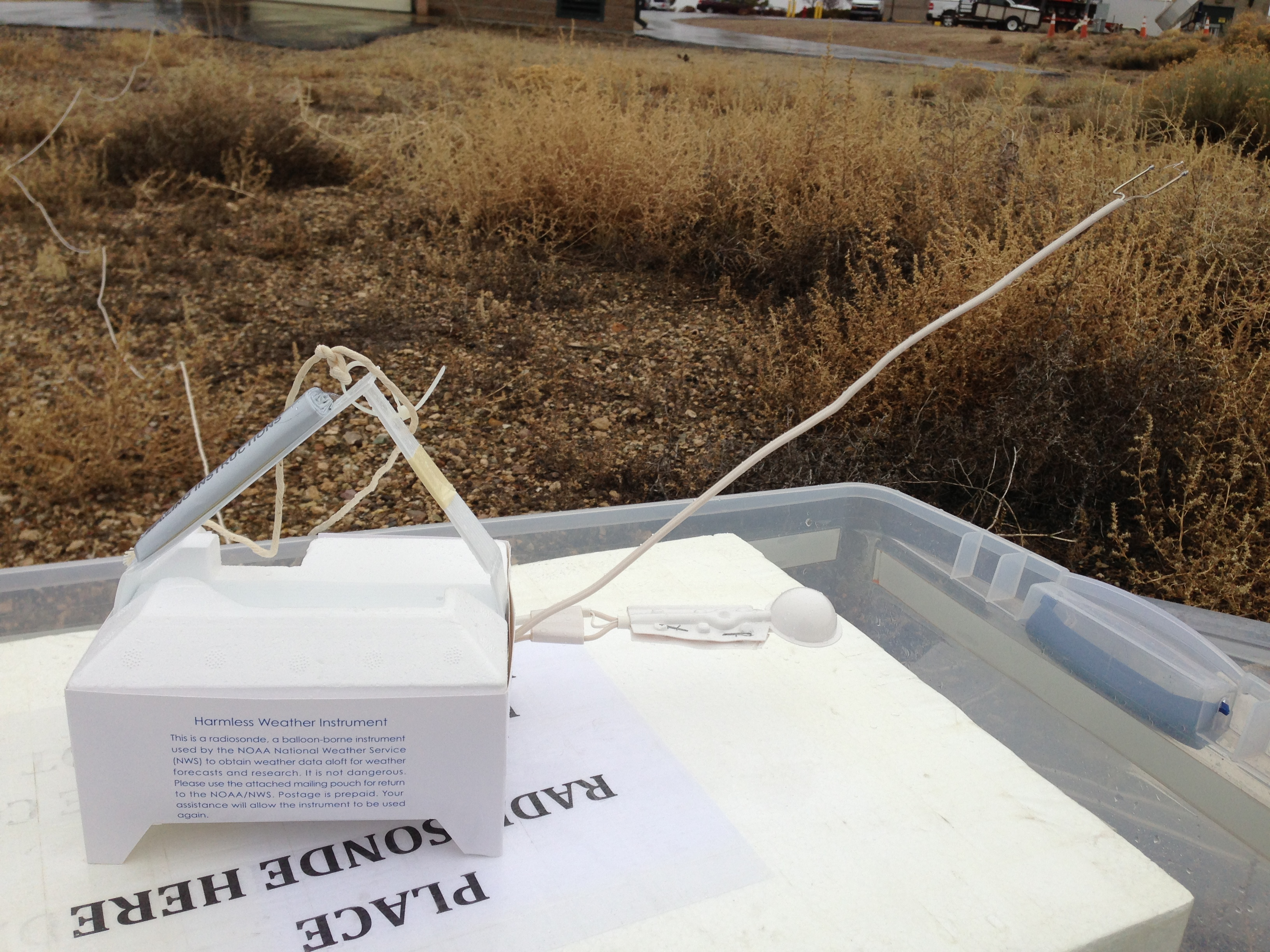 Radiosonde ready for release